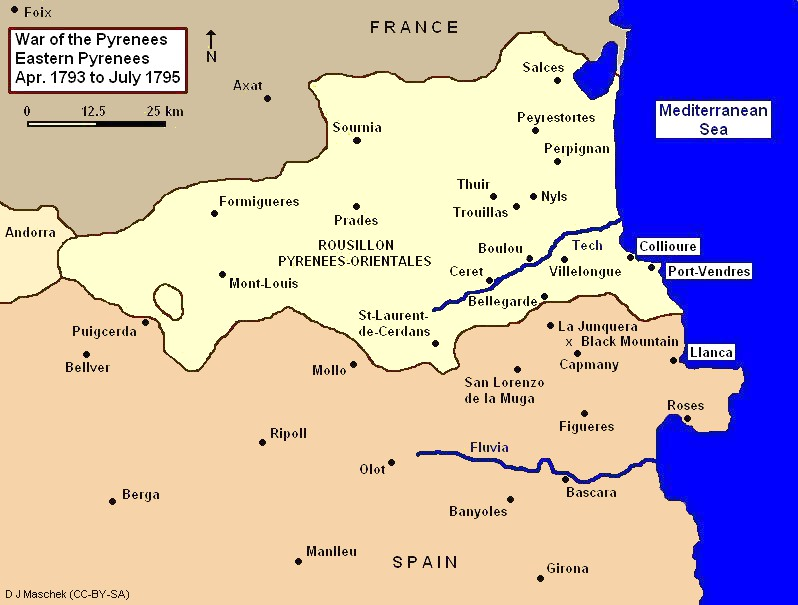 War of the Pyrenees 1793-1795, Eastern Theater Campaign Map